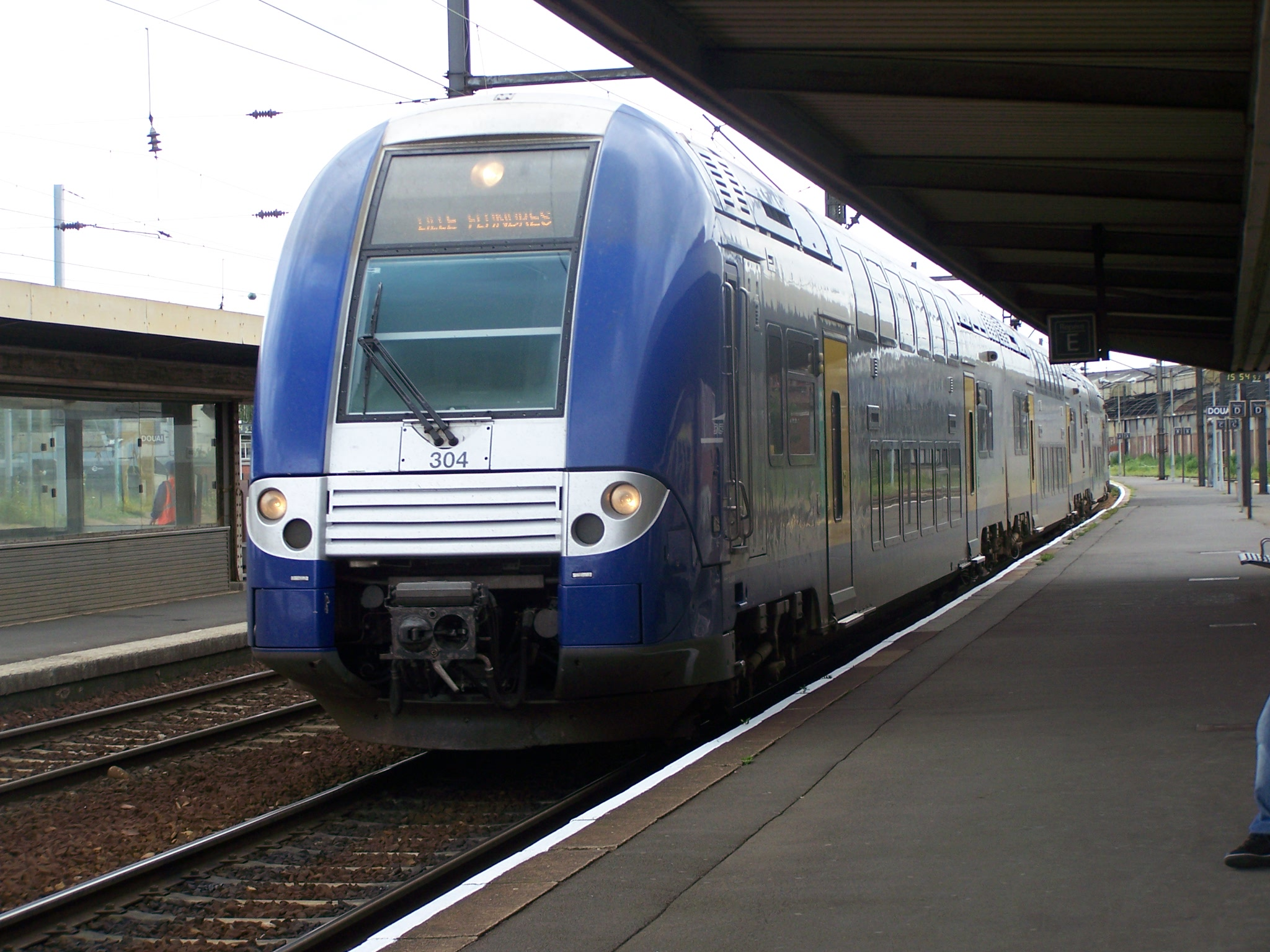 Coming from Valenciennes, a regional train entering at Douai station.